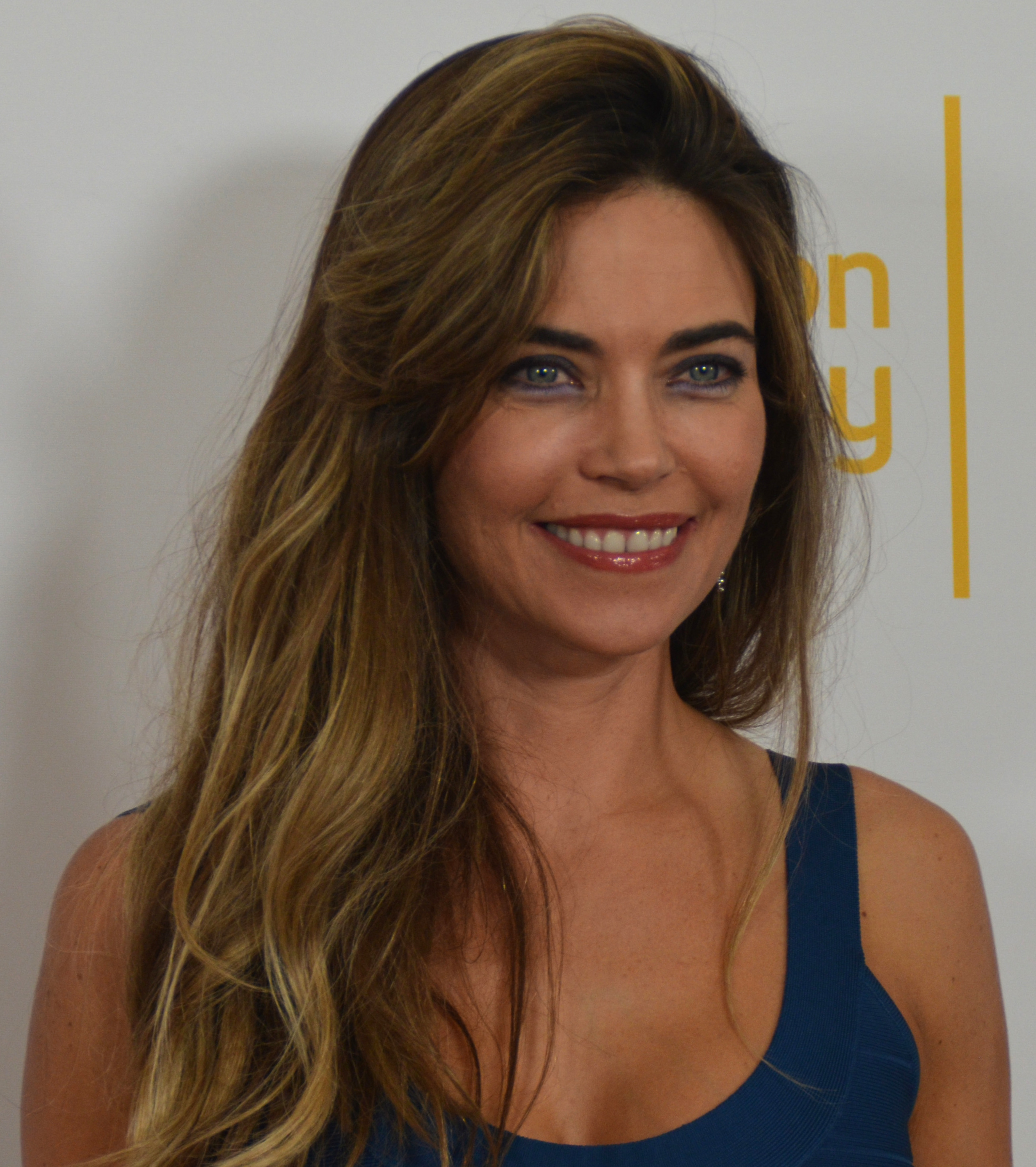 Amelia Heinle Mingle Media TV and Red Carpet Report host Ashley Harrington were invited to cover the 2014 Daytime Emmy® Awards Nominees Cocktail Reception Hosted by the Television Academy’s Daytime Programming Peer Group Governors at the London West Hotel in Hollywood.